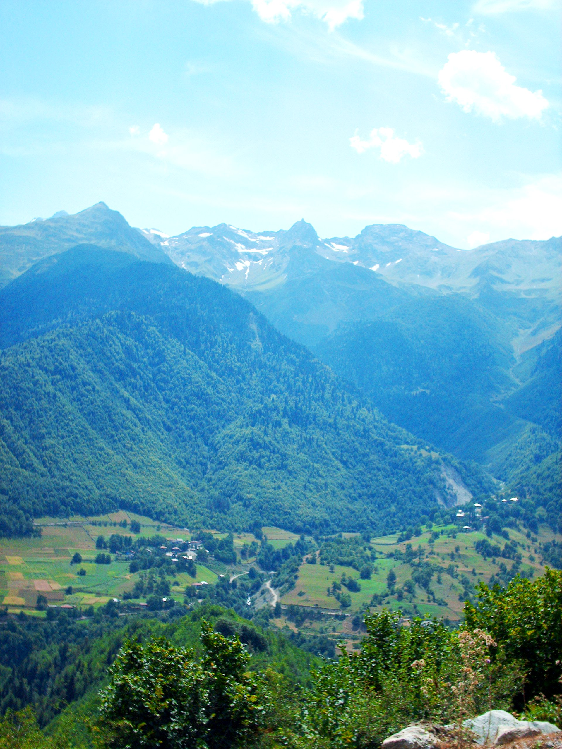 photo by: Ann Schiff